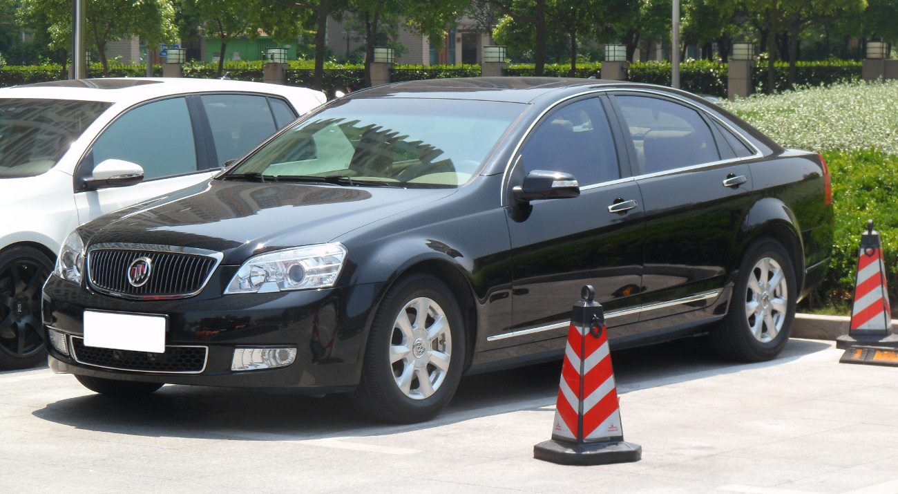 Buick Park Avenue CN photographed in Shanghai, China.